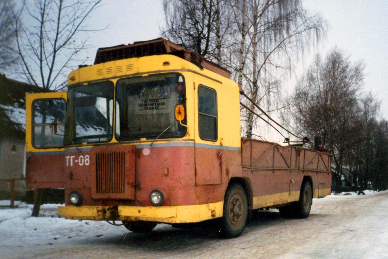 Freight trolleybus ТГ-08 (TG-08) in Bryansk